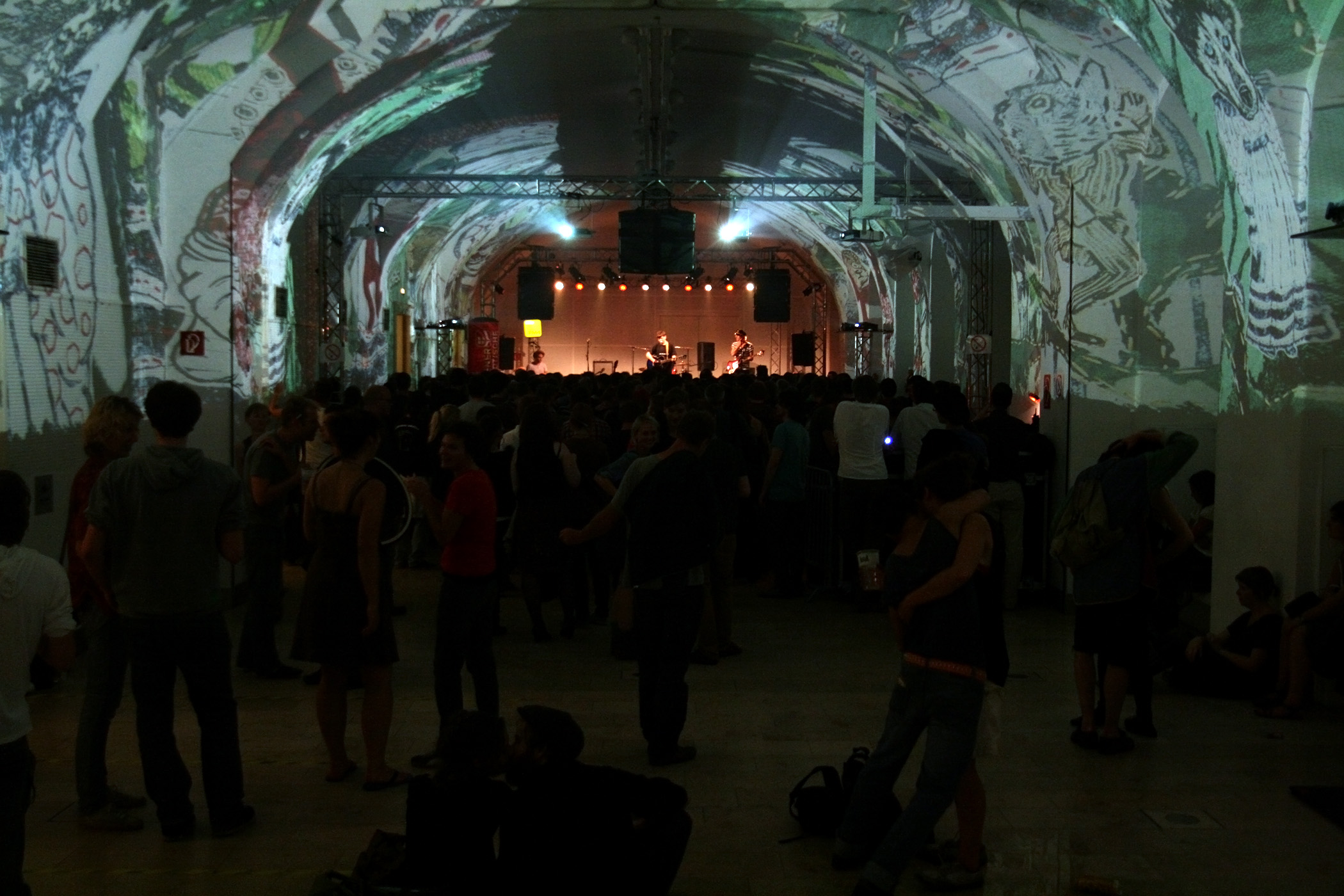 Der Nino aus Wien at Popfest 2012 in Vienna, Austria.